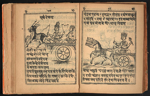 Two depictions of Surya in his chariot.